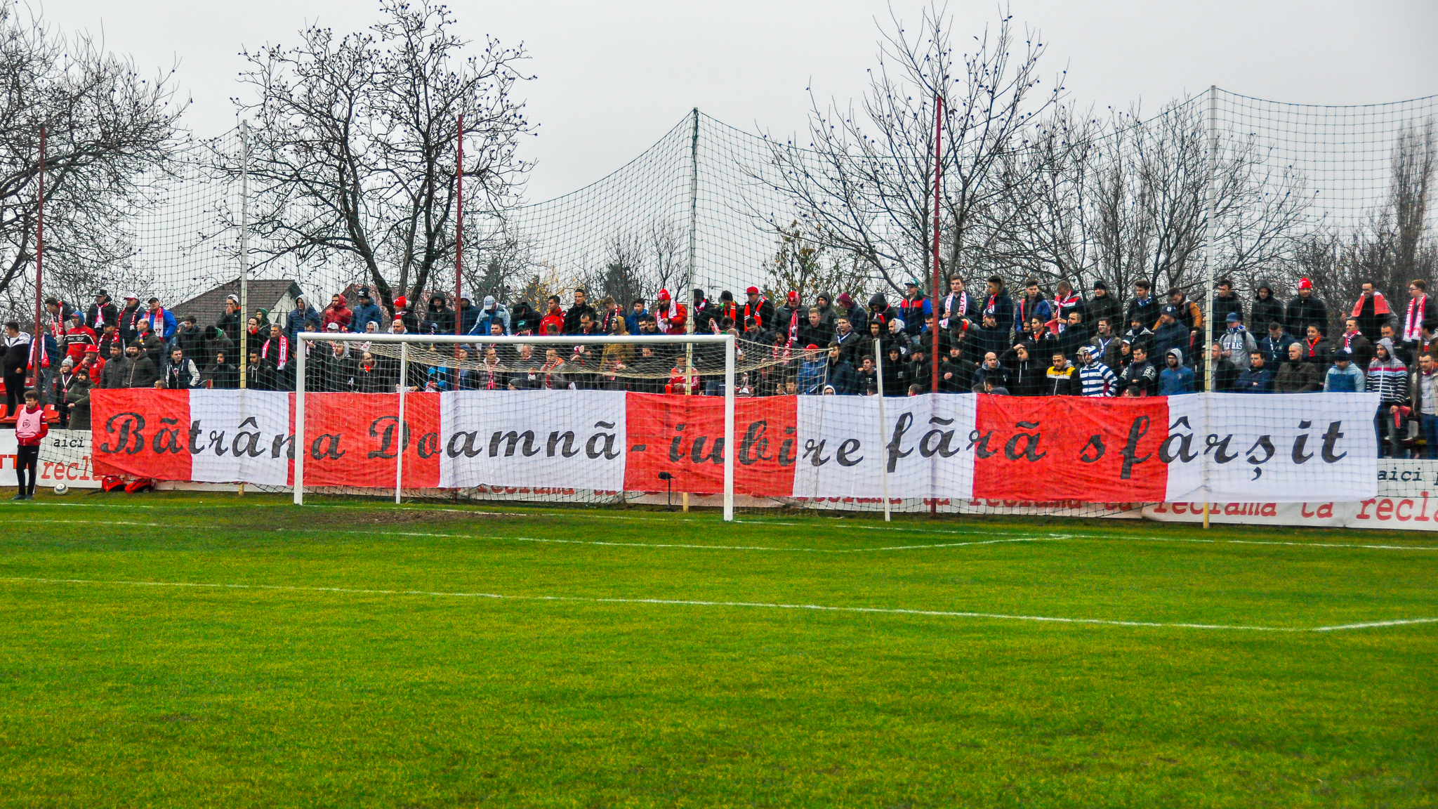 This is a photo of Stadionul Motorul (Arad).